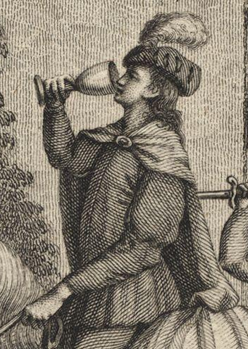 Edward the Martyr, by Edwards, published 1776.